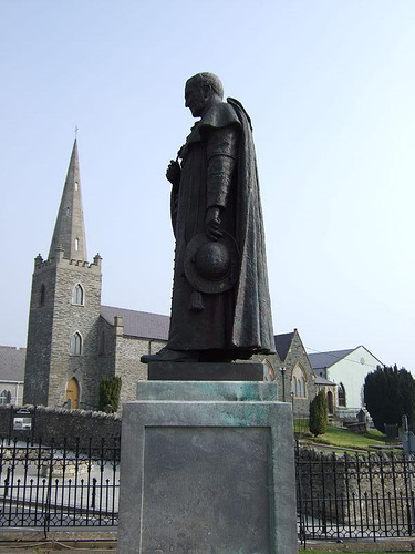 My Own Photo